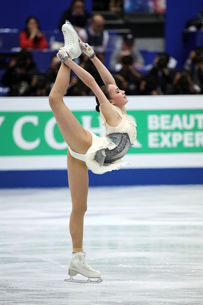 Alina Zagitova at the World Championships 2019 - Short program